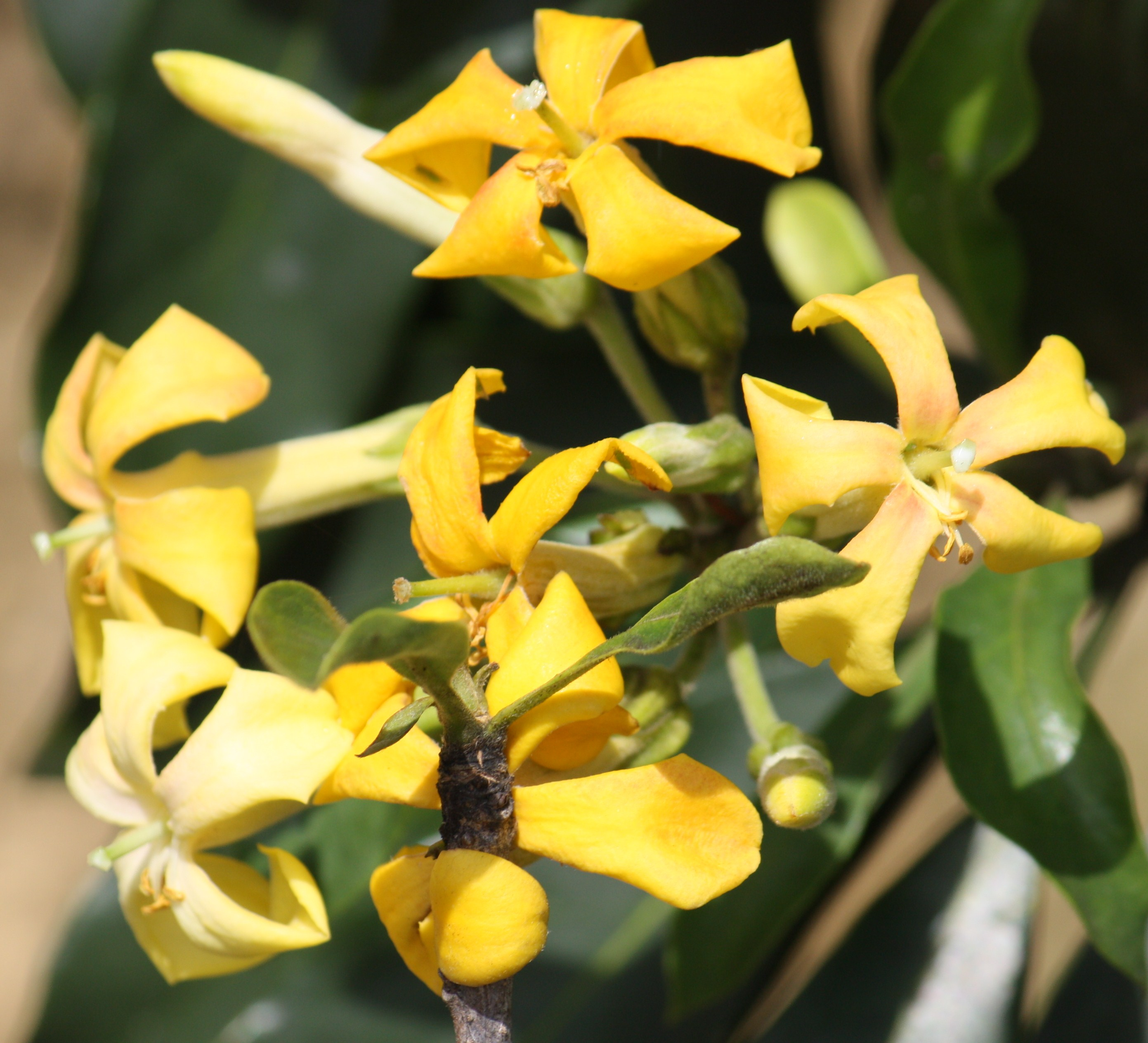 The flowers of this Australian rainforest tree are much smaller than those of the exotic frangipani, but have a similar strong perfume. Fowering in spring, the flowers open cream and darken to yellow as they age providing a multi-colour effect.